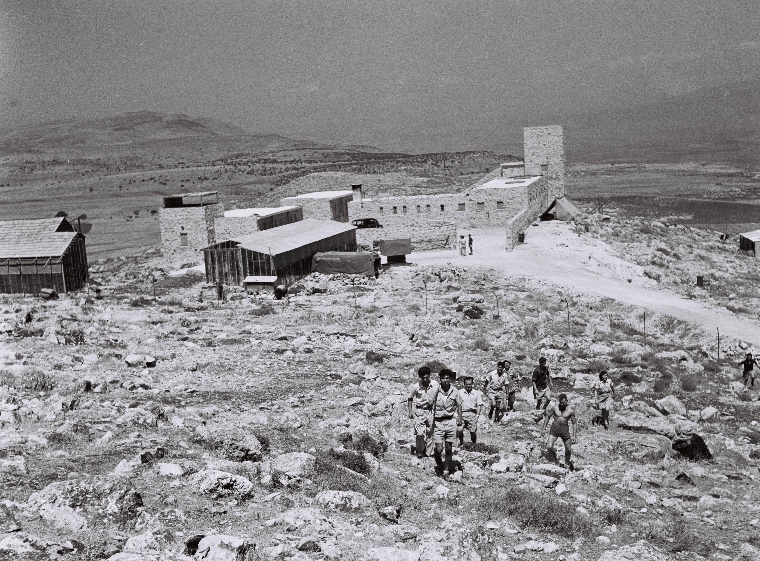 VIEW OF MOSHAV RAMOT NAFTALI. מושב רמות נפתלי בגליל העליון.